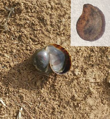 The freshwater mollusk Pomacea and its operculum. Photographed in São Paulo state, Brazil.